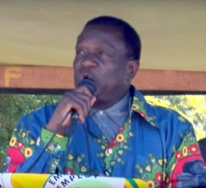 Vice President of Zimbabwe, Emmerson Mnangagwa Speaking in Headlands on Didymus Mtasa